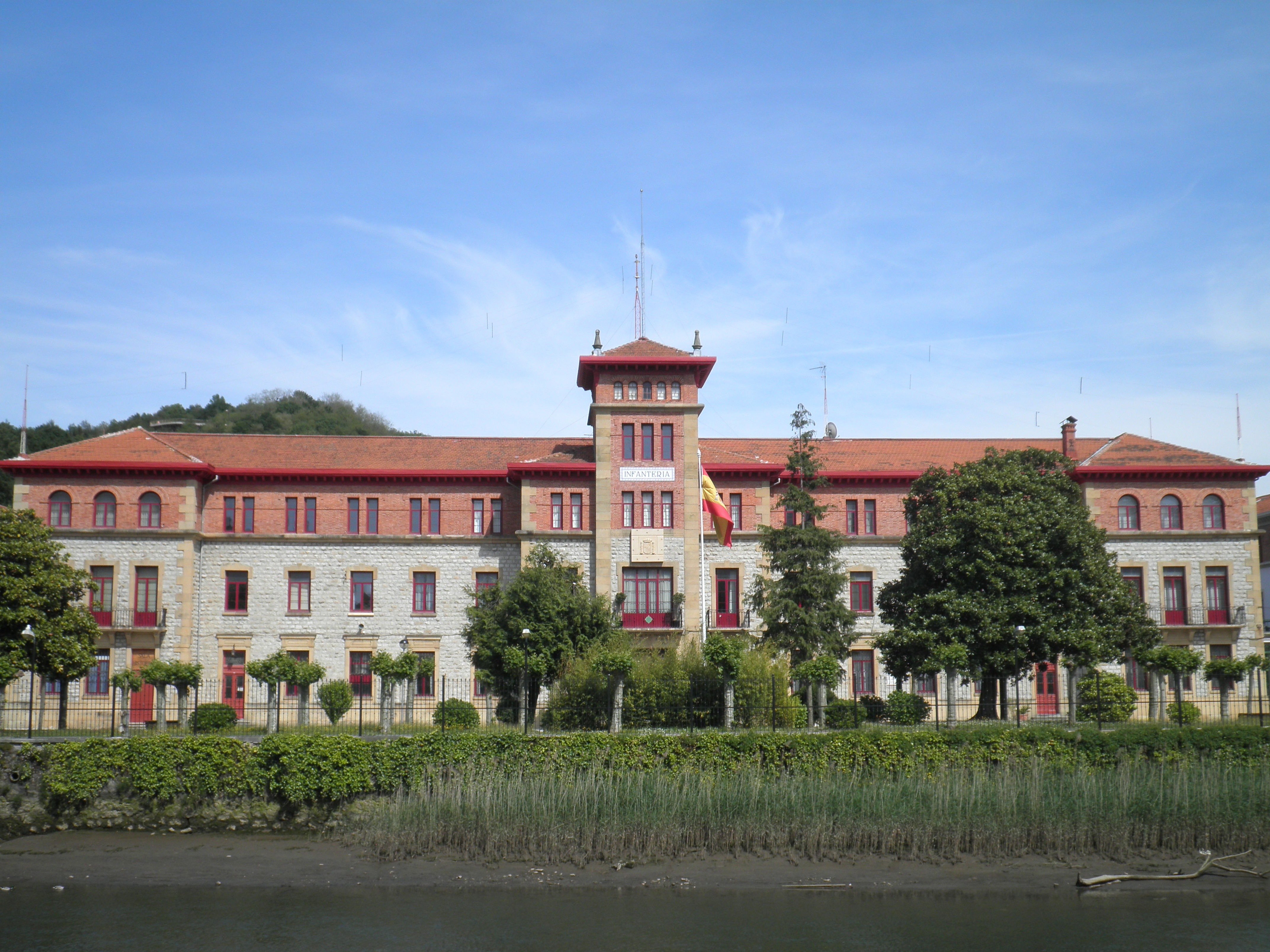 Military barrack in Loiola, Donostia.